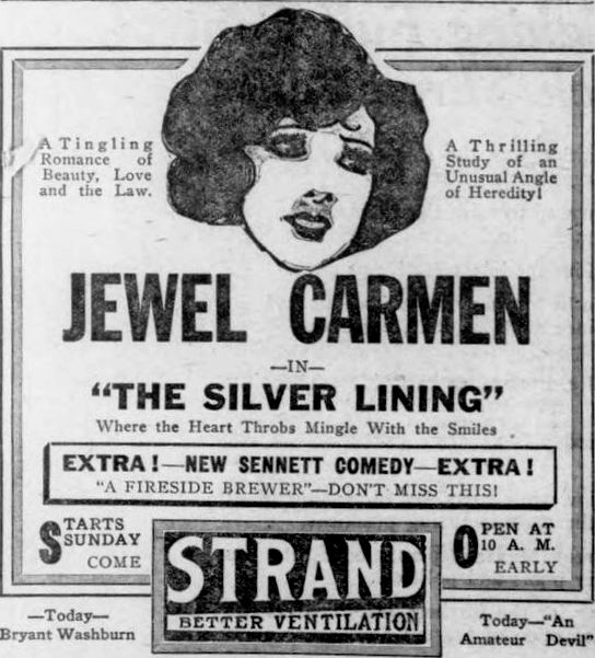 Newspaper advertisement for the American film The Silver Lining (1921) with Jewel Carmen, on page 9 of the May 21, 1921 Duluth Herald.